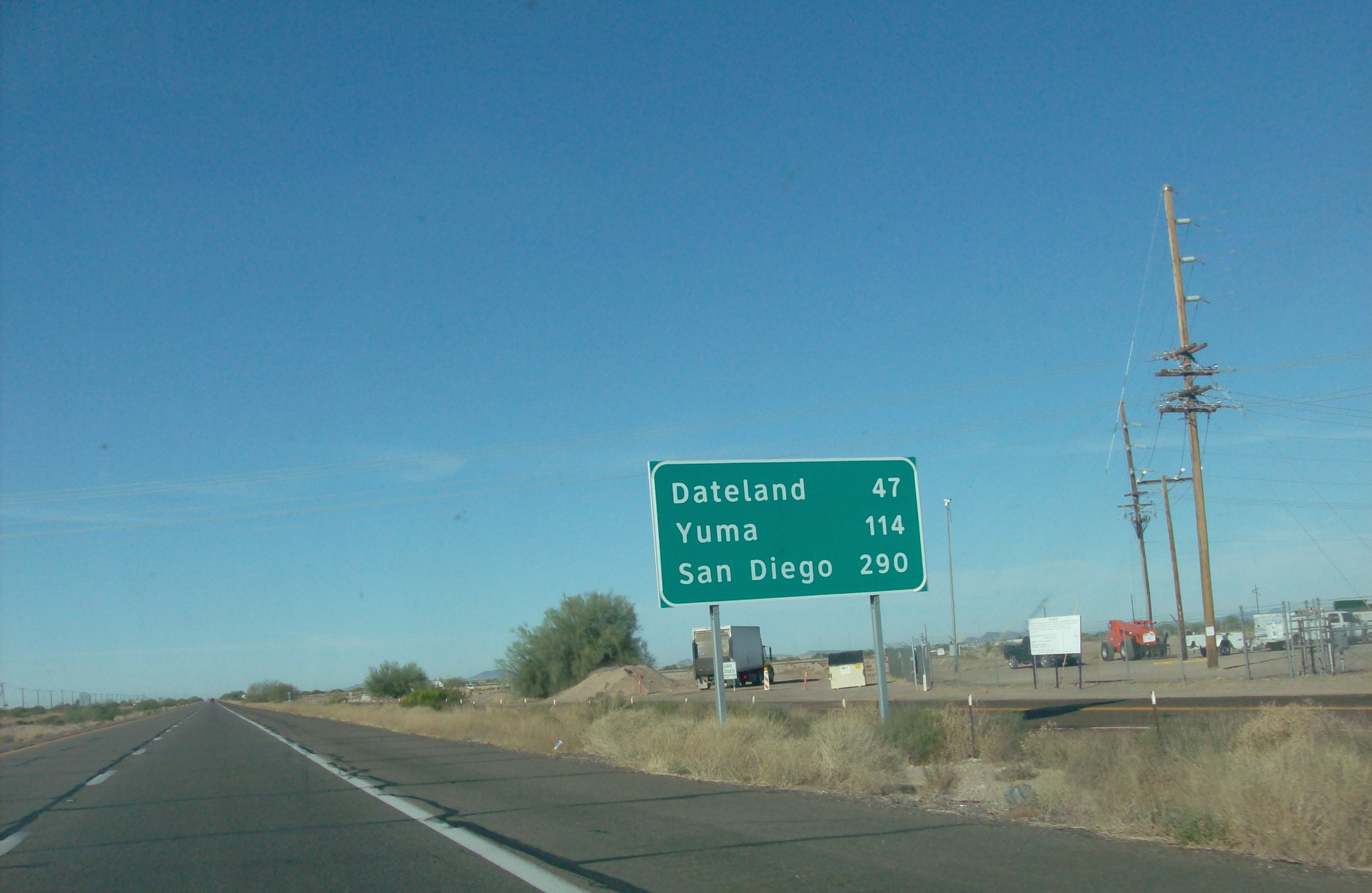 A 3-line distance sign on westbound Interstate 8 within the city limits of Gila Bend, AZ just after exit 115.